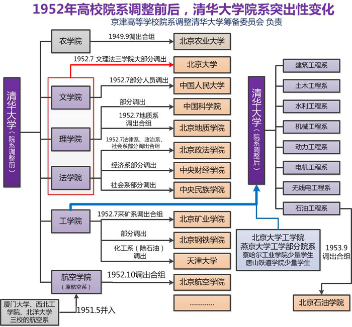 Tsinghua University's Big Changes round about 1952.